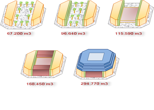 Eixample map of Barcelona. Evolution of Plan Cerdà with increasing construction.